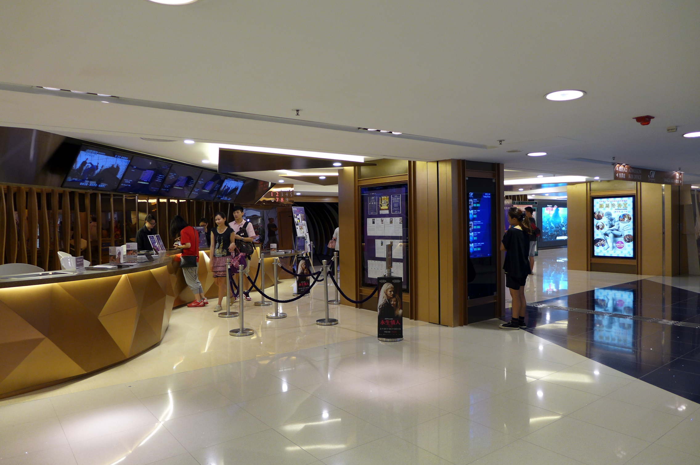 EMax The Metroplex